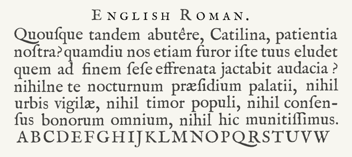 Sample of English Roman "Fell type"